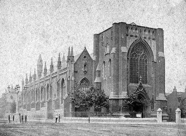 St. George's Roman Catholic Cathedral Southwark, original appearance